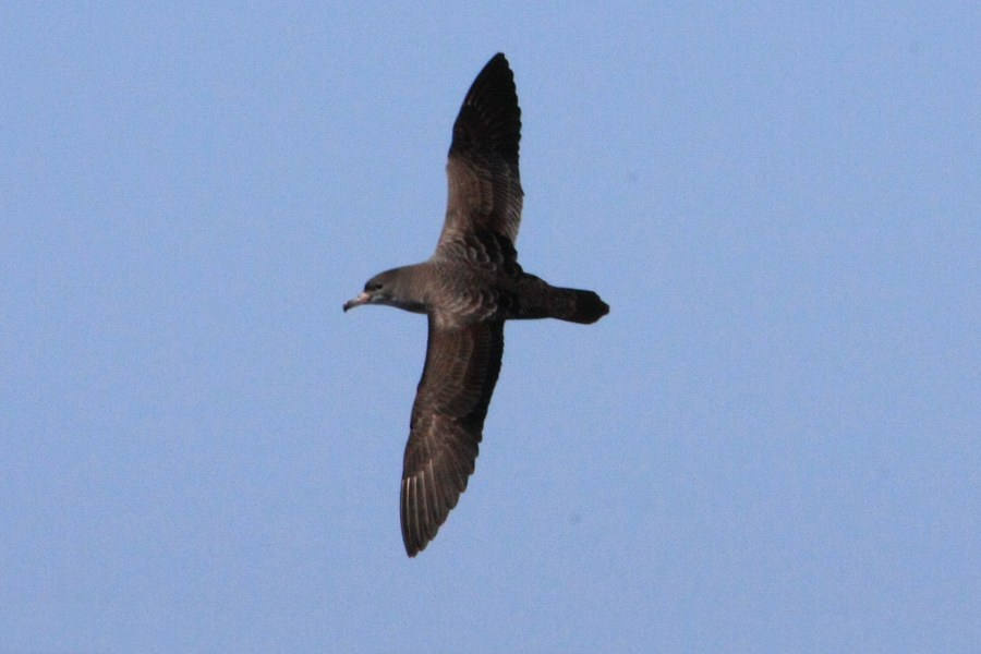 Pink-footed Shearwater (dorsal view),Monterey, California, USA